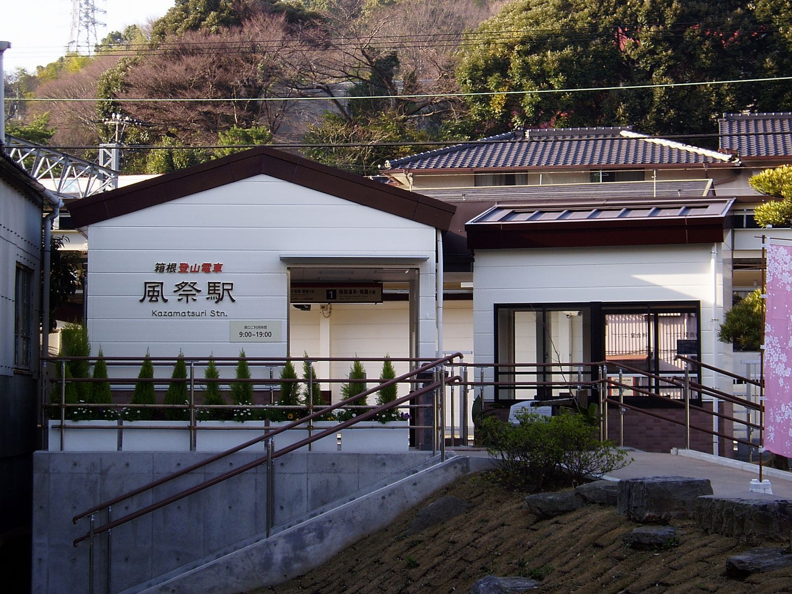 The south entrance to Kazamatsuri Station on the Hakone Tozan Railway